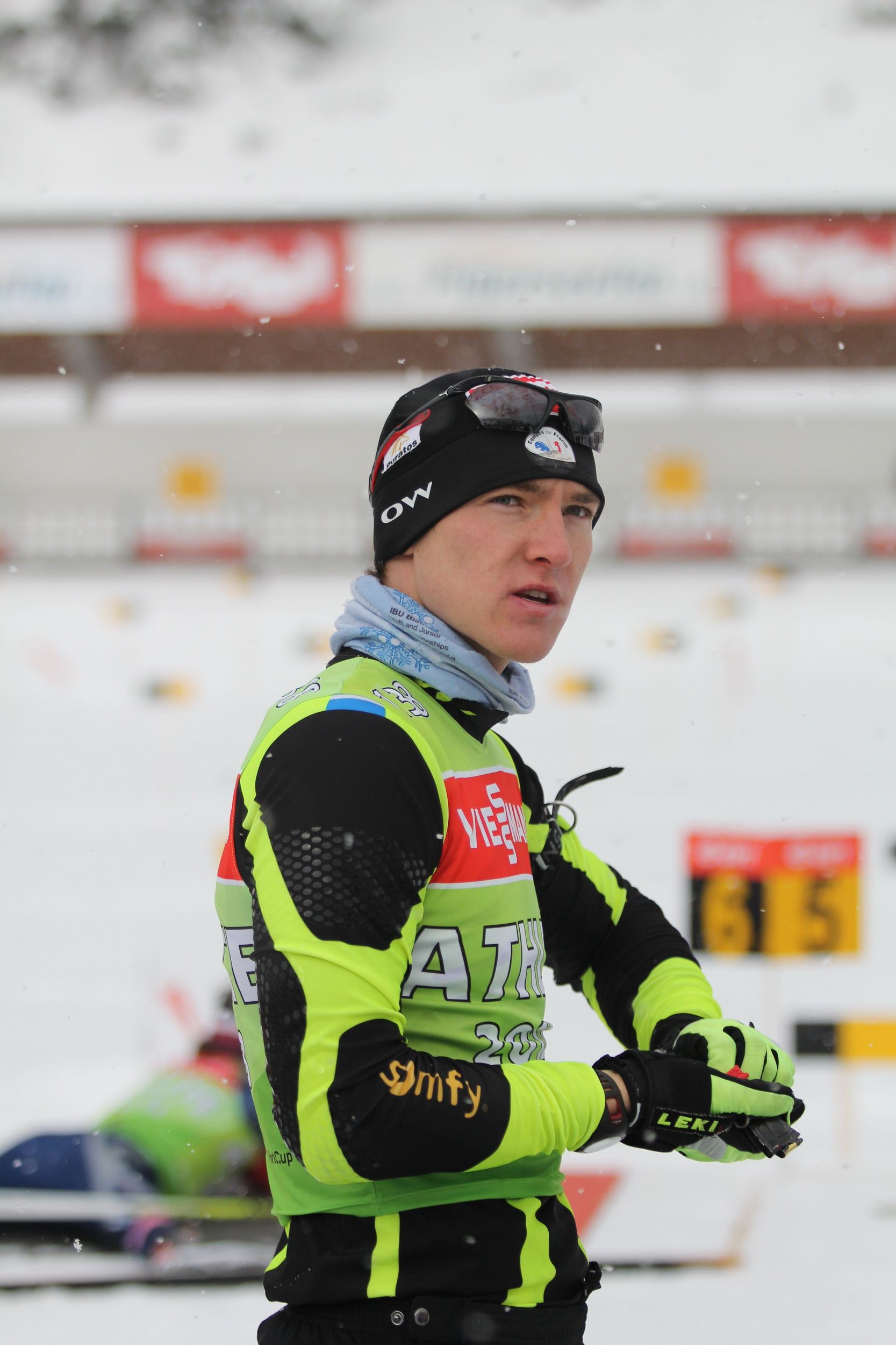 Florent Claude at Biathlon Weltcup 2012 in Hochfilzen